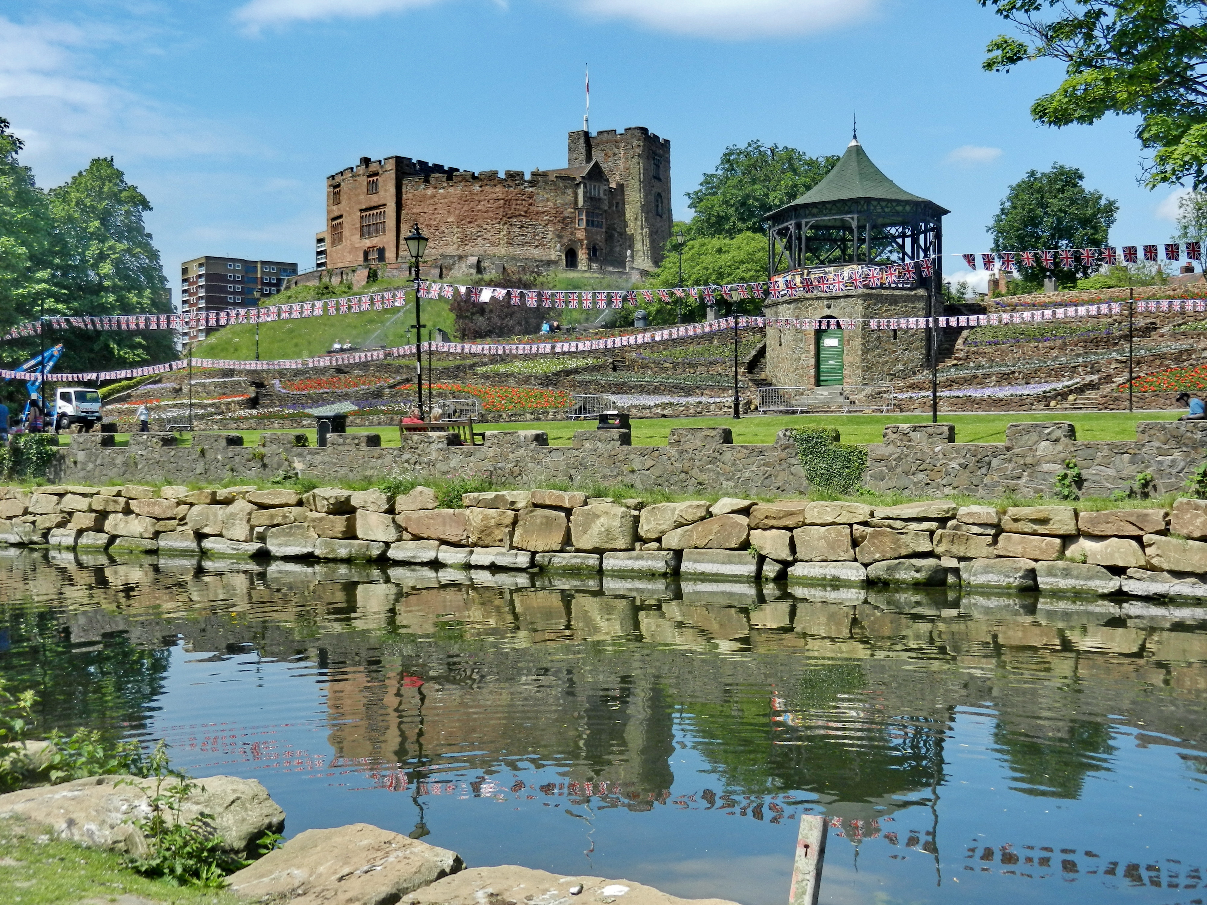 Tamworth